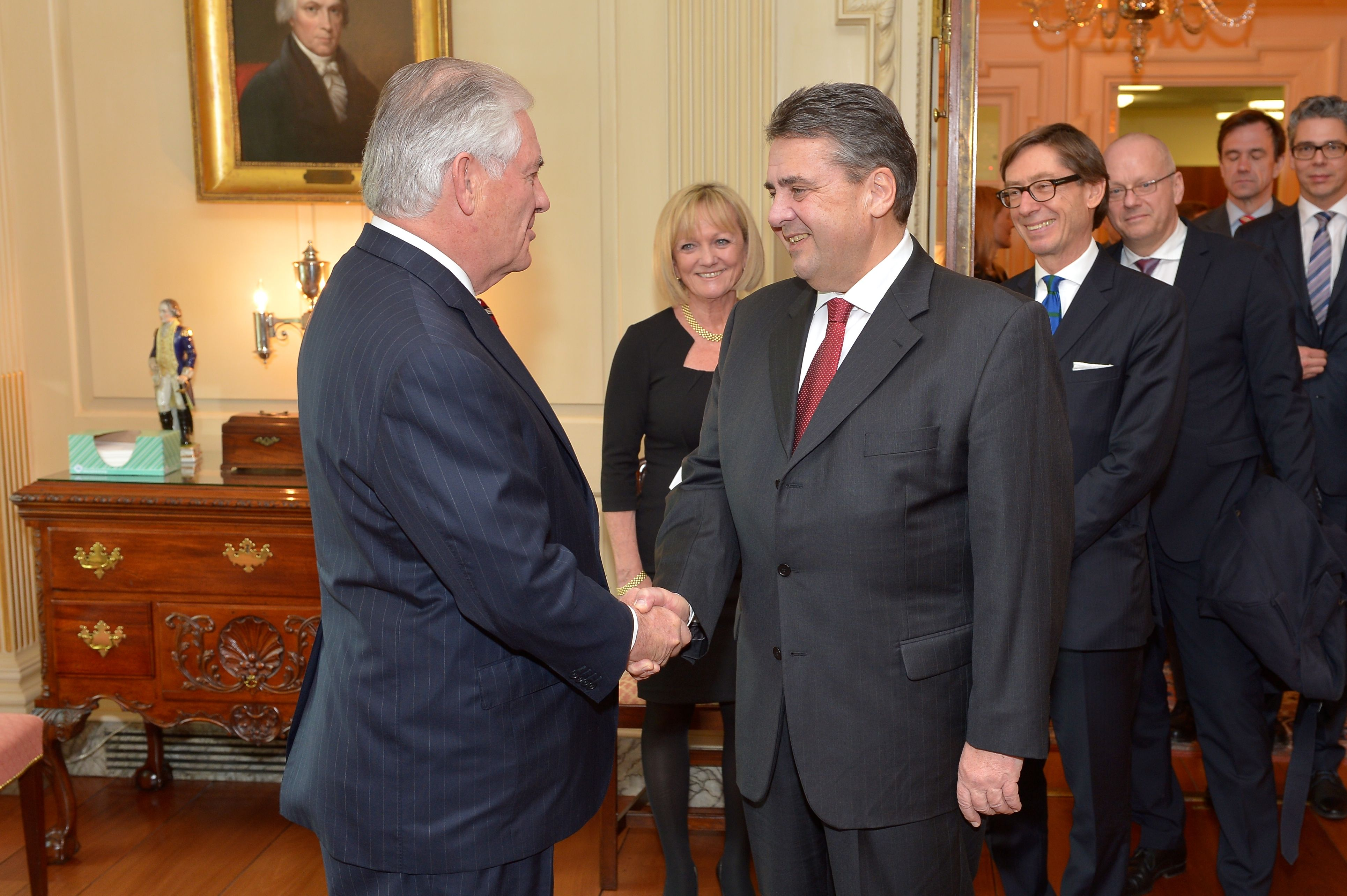 U.S. Secretary of State Rex Tillerson greets German Foreign Minister Sigmar Gabriel before their bilateral meeting at the U.S. Department of State in Washington, D.C., on February 2, 2017. [State Department photo/ Public Domain]